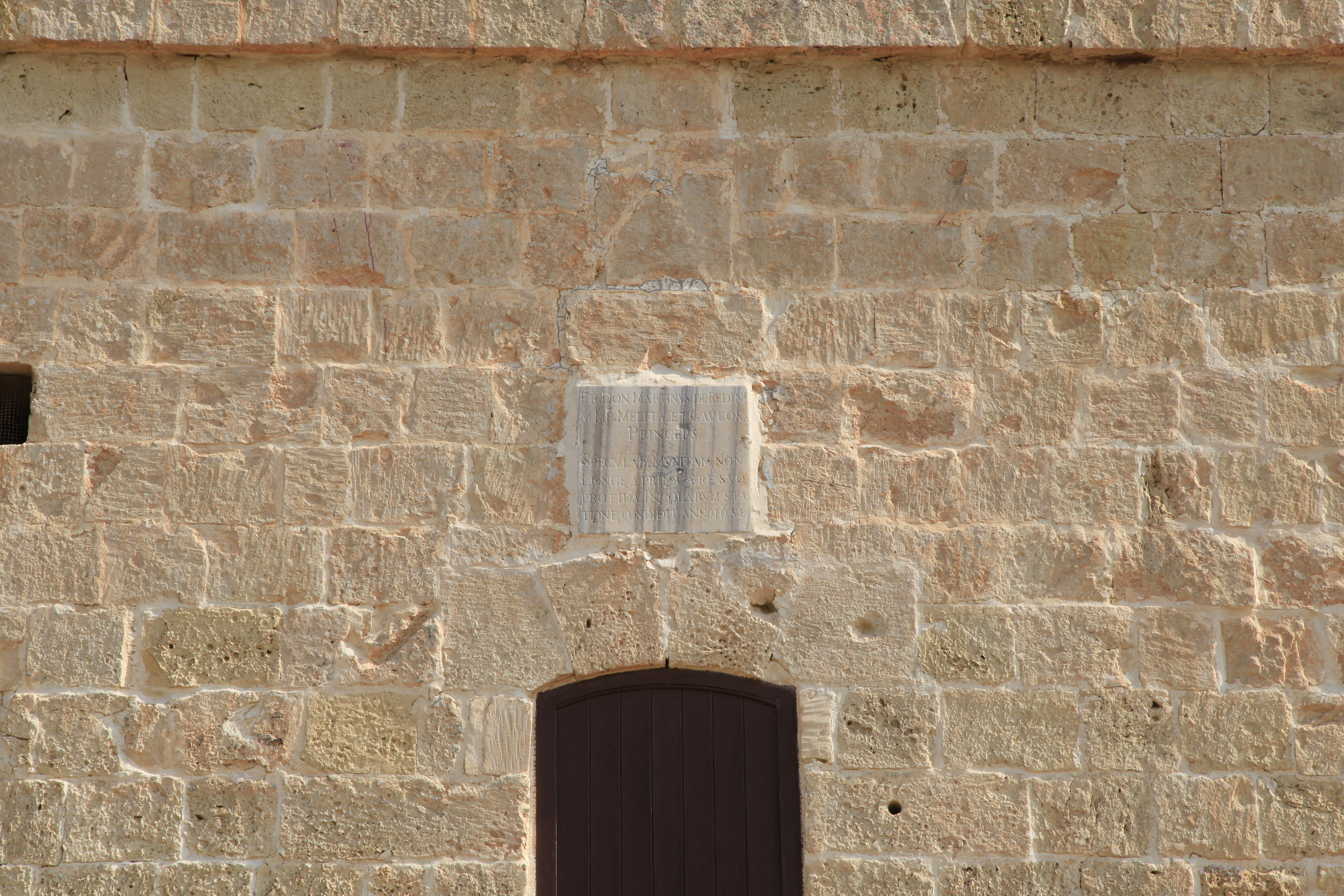 Għallis Tower at Tul il-Kosta in Naxxar, Malta